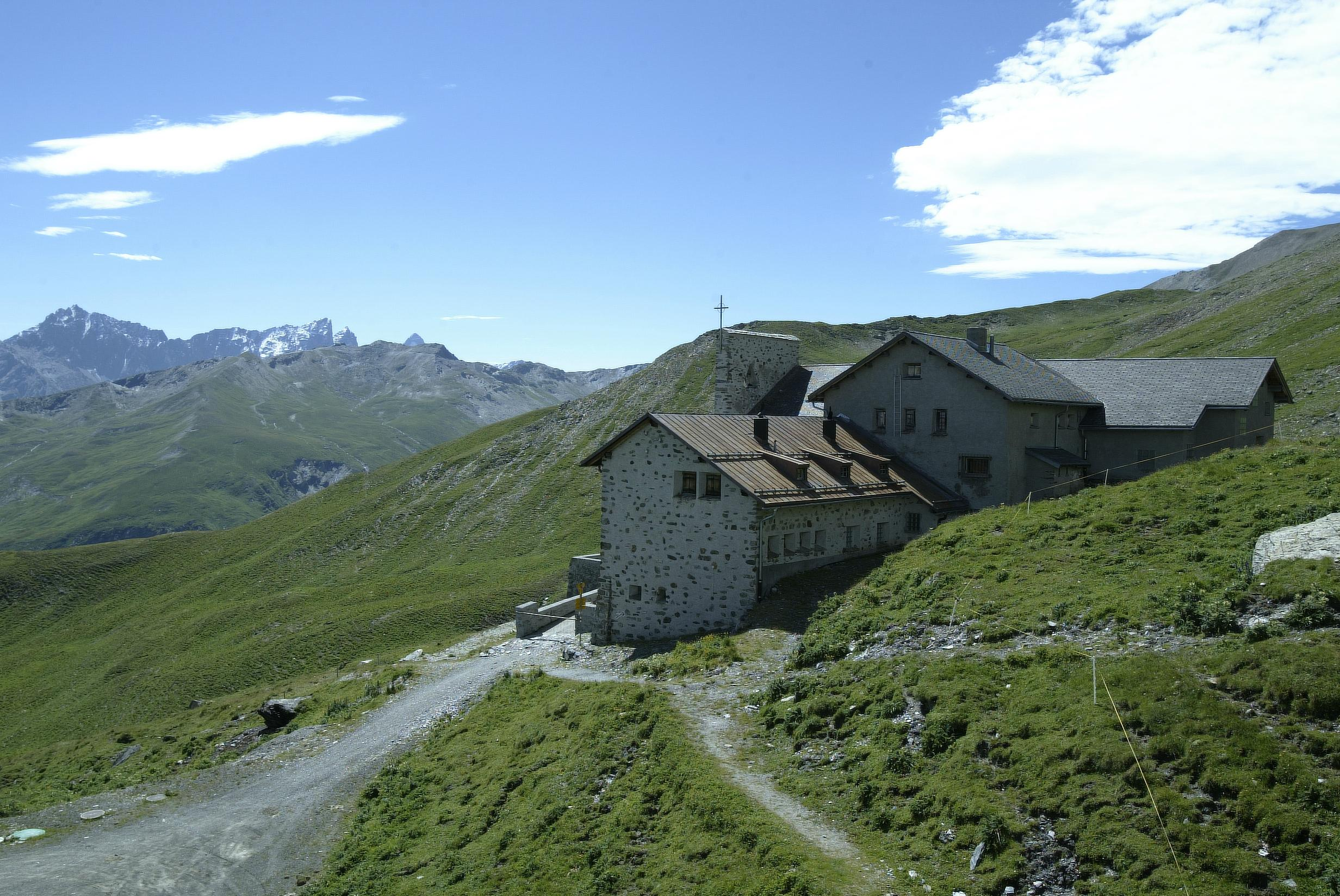 Sanctuary Ziteil from North, Salouf, Grison, Switzerland